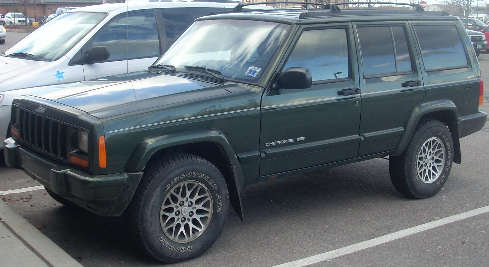 1997-1999 Jeep Cherokee photographed in Williston, VT, USA.